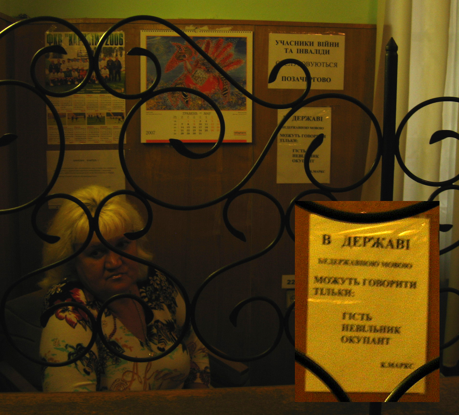 Announcement in a public clinic in Lviv, Ukraine, written in Ukrainian language for visitors: "In a state only a guest, a slave or an occupant can speak non-state language. K.Marx."